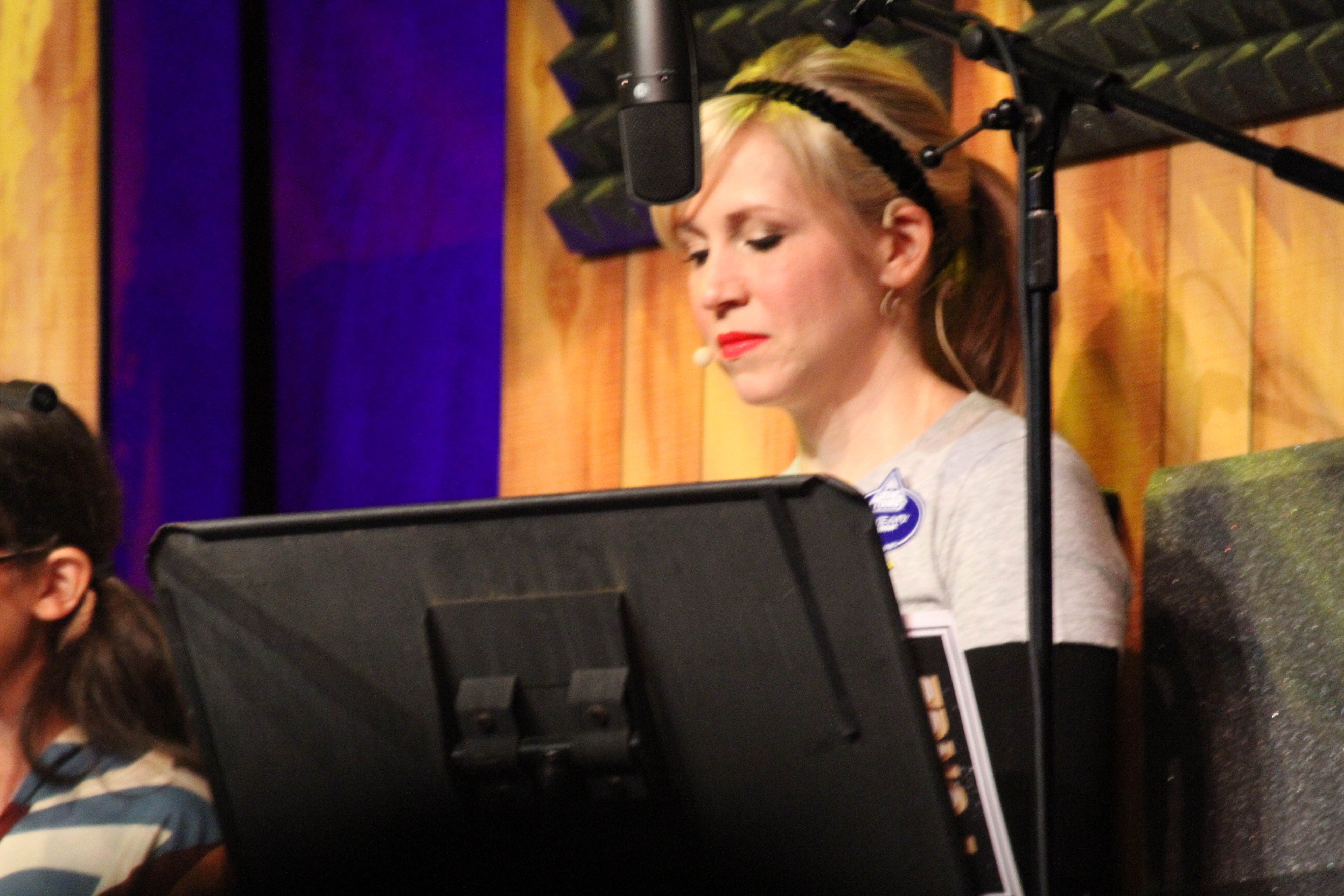 Star Wars Weekends event with Clone Wars voice actors, May 26, 2012.